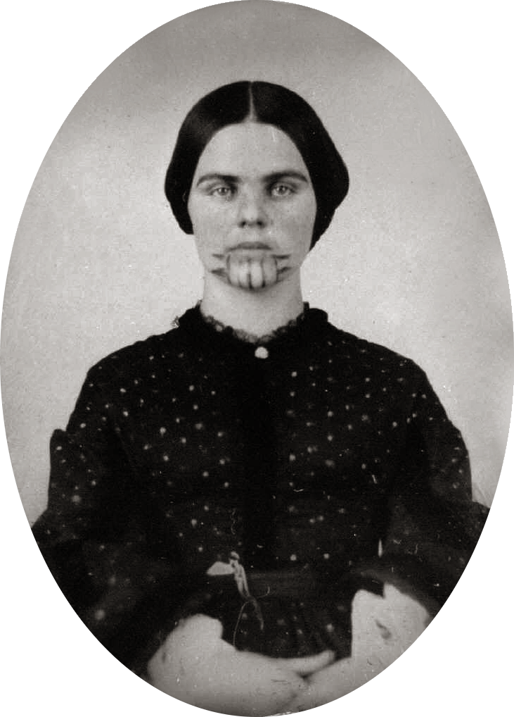 Olive Oatman, Tintype portrait